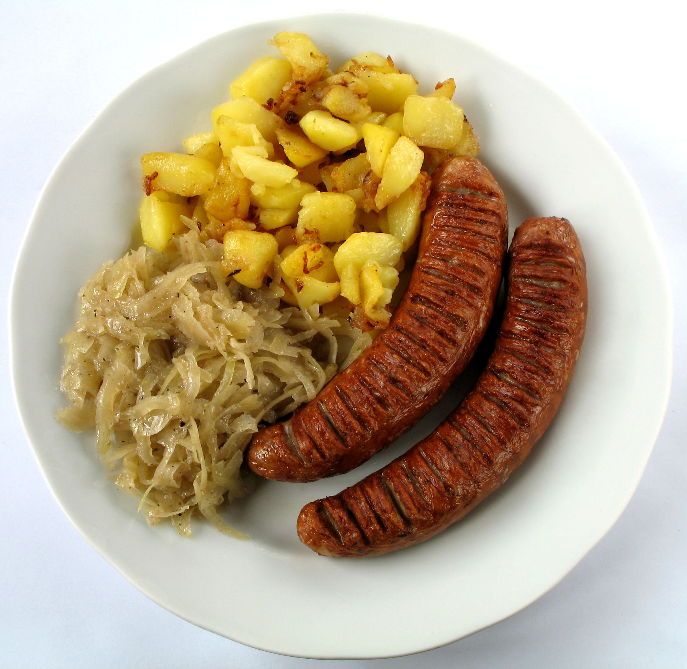 Bratwurst with cabbage and potatoes, designed in the opinion of foreigners as typical German food.